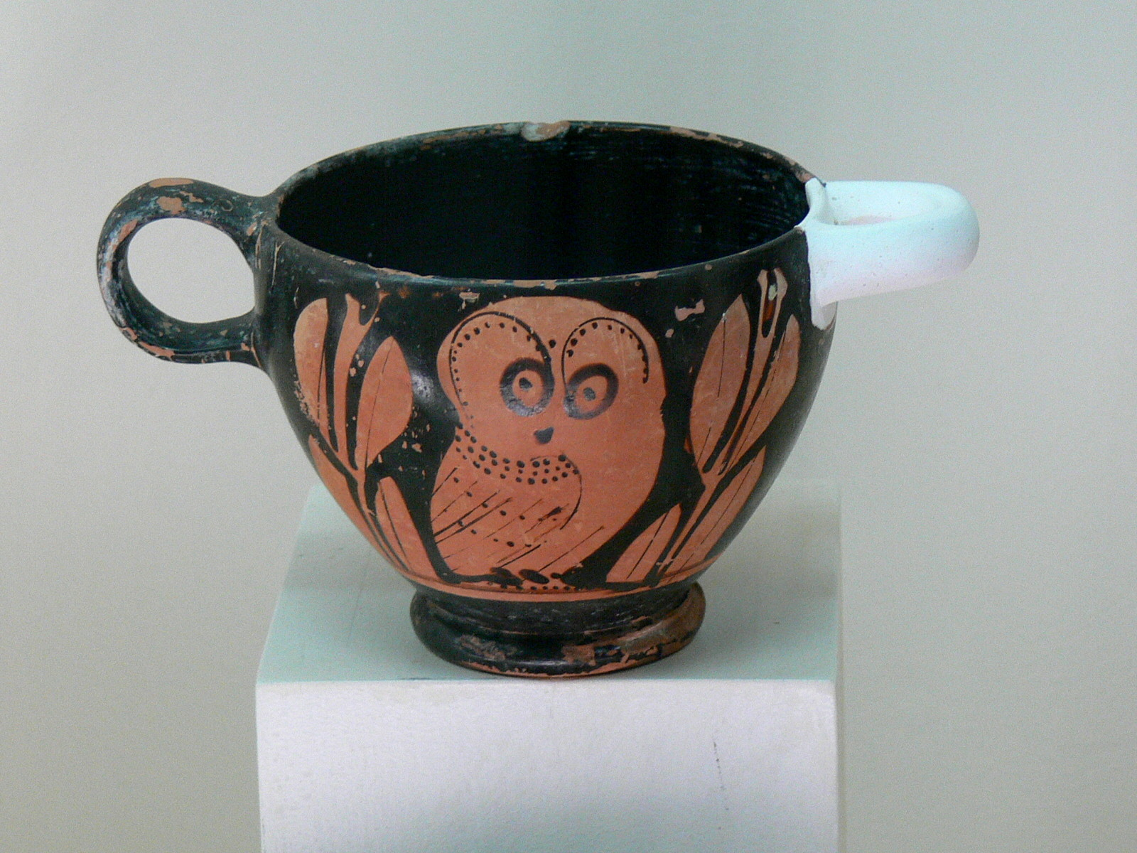 Antalya Archaeological Museum. Red figure skyphos showing an owl.